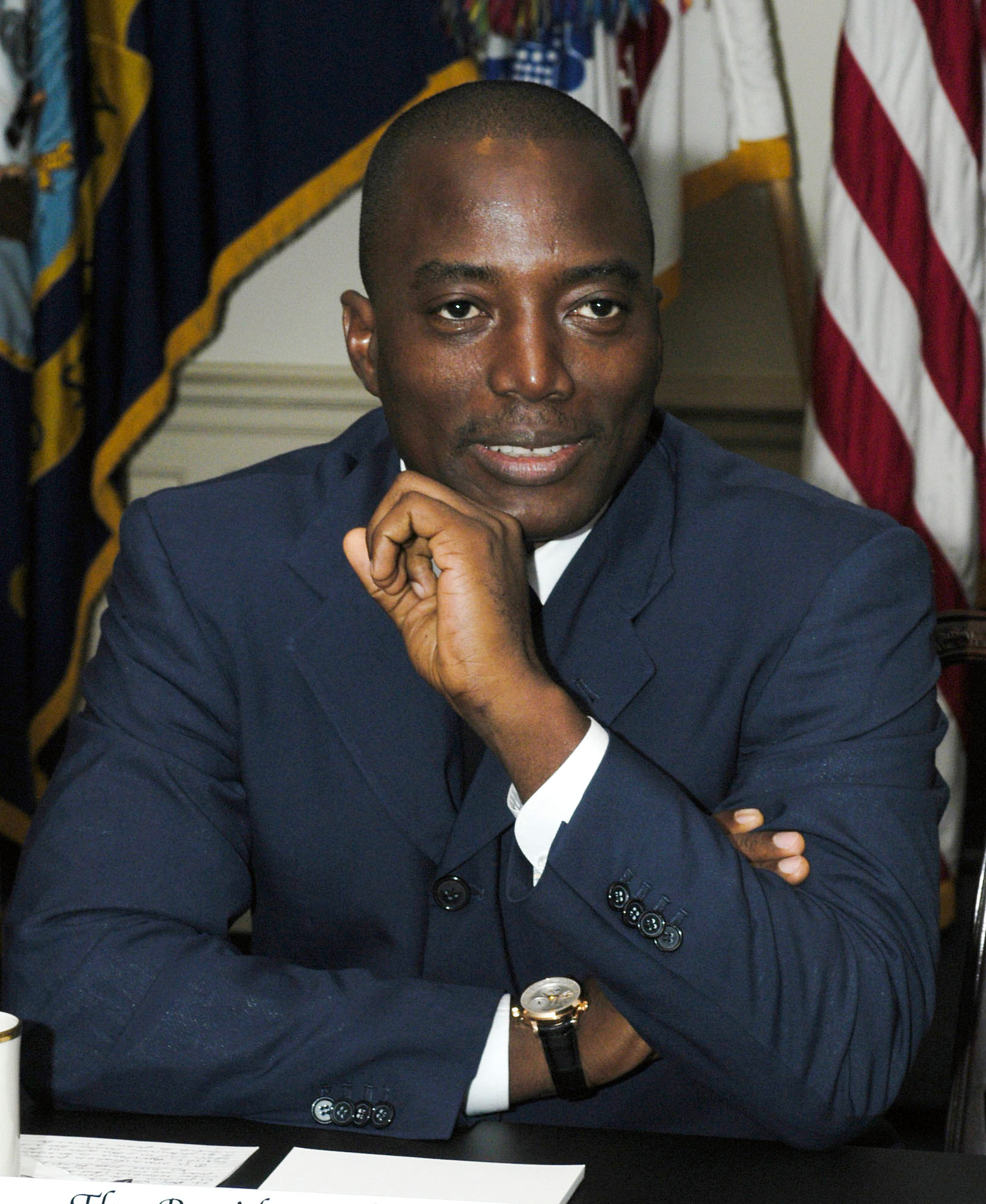 President Joseph Kabila of the Democratic Republic of the Congo meets with Deputy Secretary of Defense Paul Wolfowitz at the Pentagon on Nov. 6, 2003.